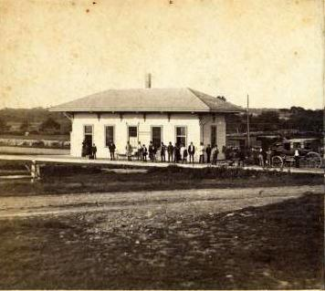 Marshfield station in the 1860s